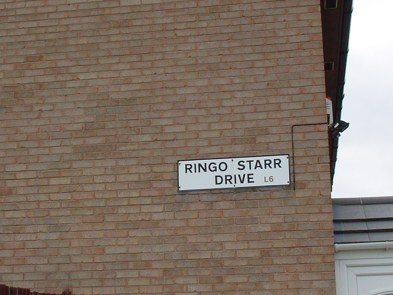 Ringo Starr Drive sign, Liverpool L6.